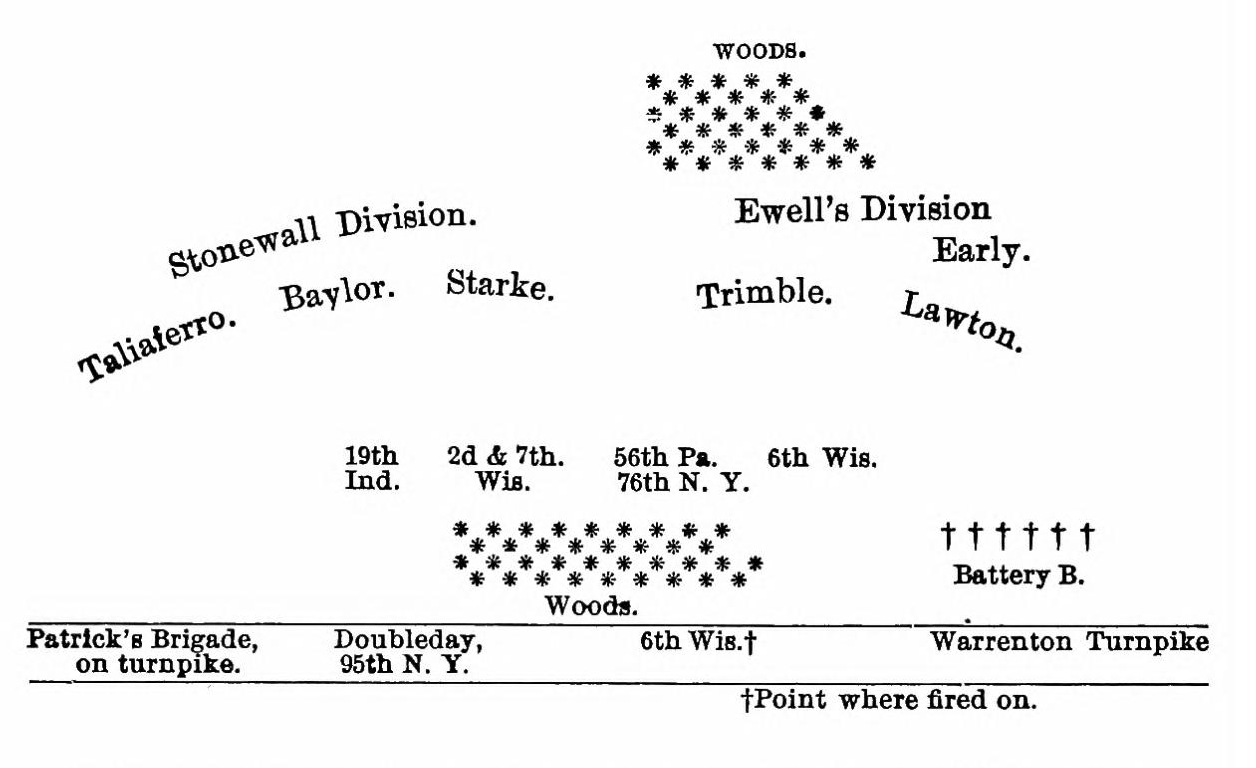 The Battle of Gainesville occurred on August 28, 1862, at the beginning of the Second Battle of Bull Run. The sketch was created by Major Rufus Dawes of the 6th Wisconsin Infantry.